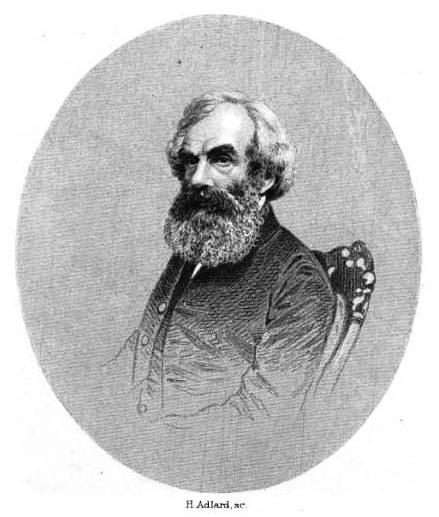 Photo of the missionary and botanist James Backhouse